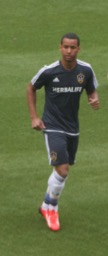 Cameron Artigliere with LA GalaxyDepicted person: Cameron Artigliere – German association football player